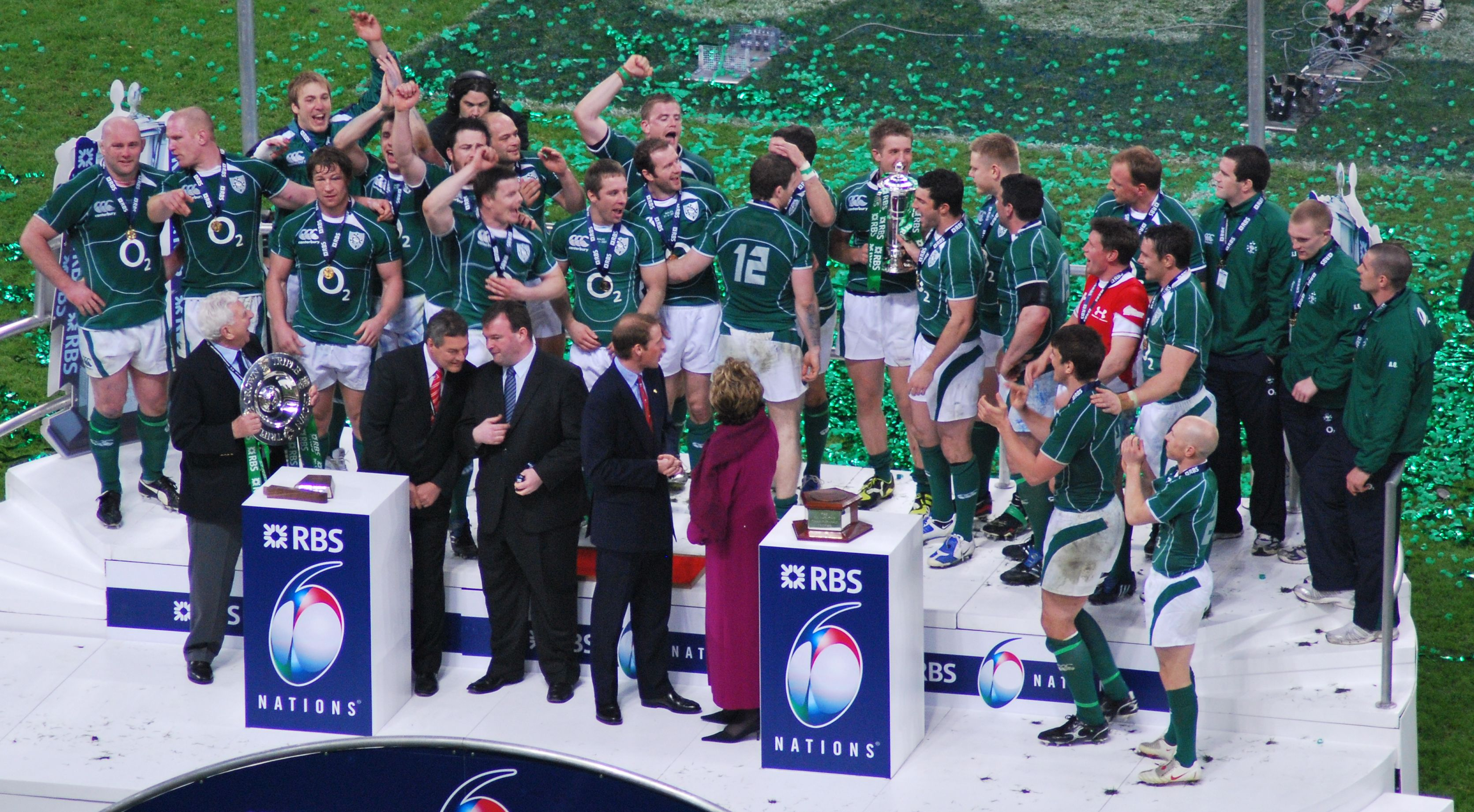 Ireland rugby union : 2009 Ireland grand slam day. Celebration.